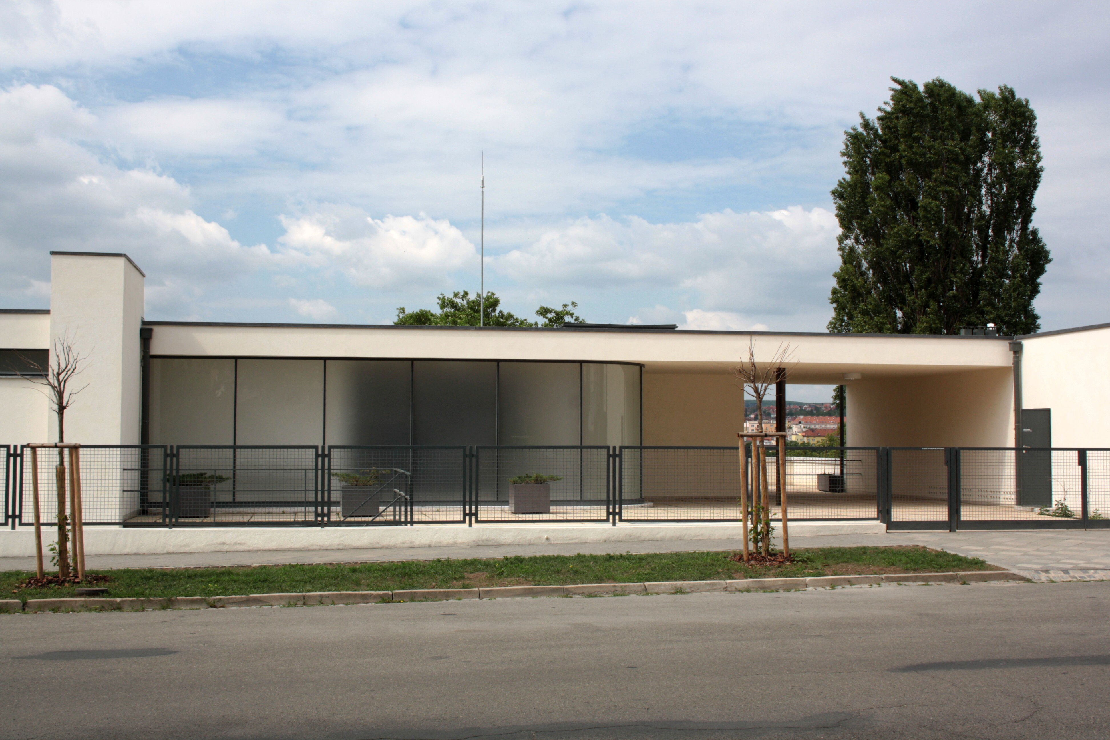 Villa Tugendhat, Brno, Czech Republic This photograph was taken with a DSLR from WMCZ's Camera grant.